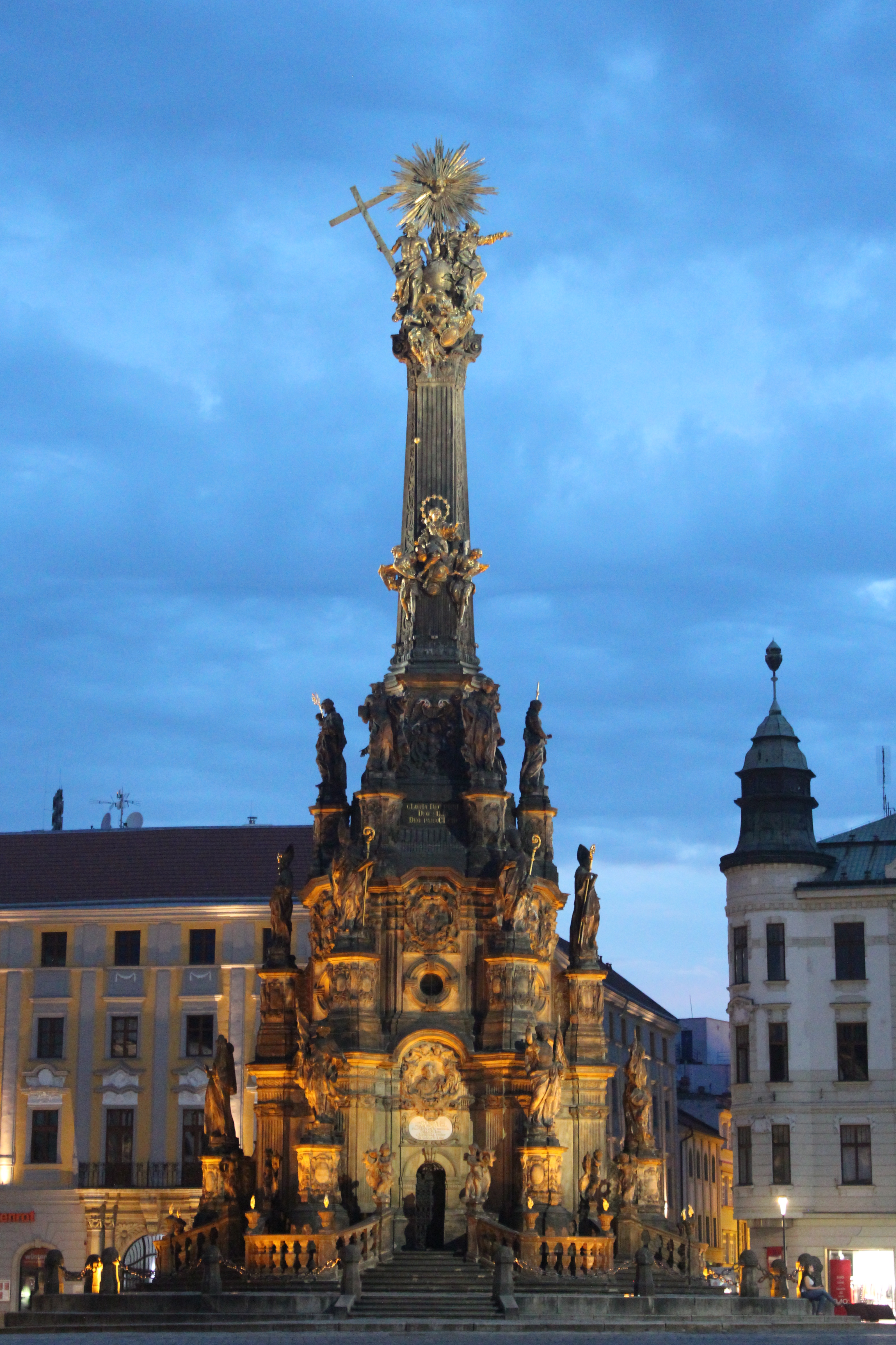 The Holy Trinity Column in Olomouc.